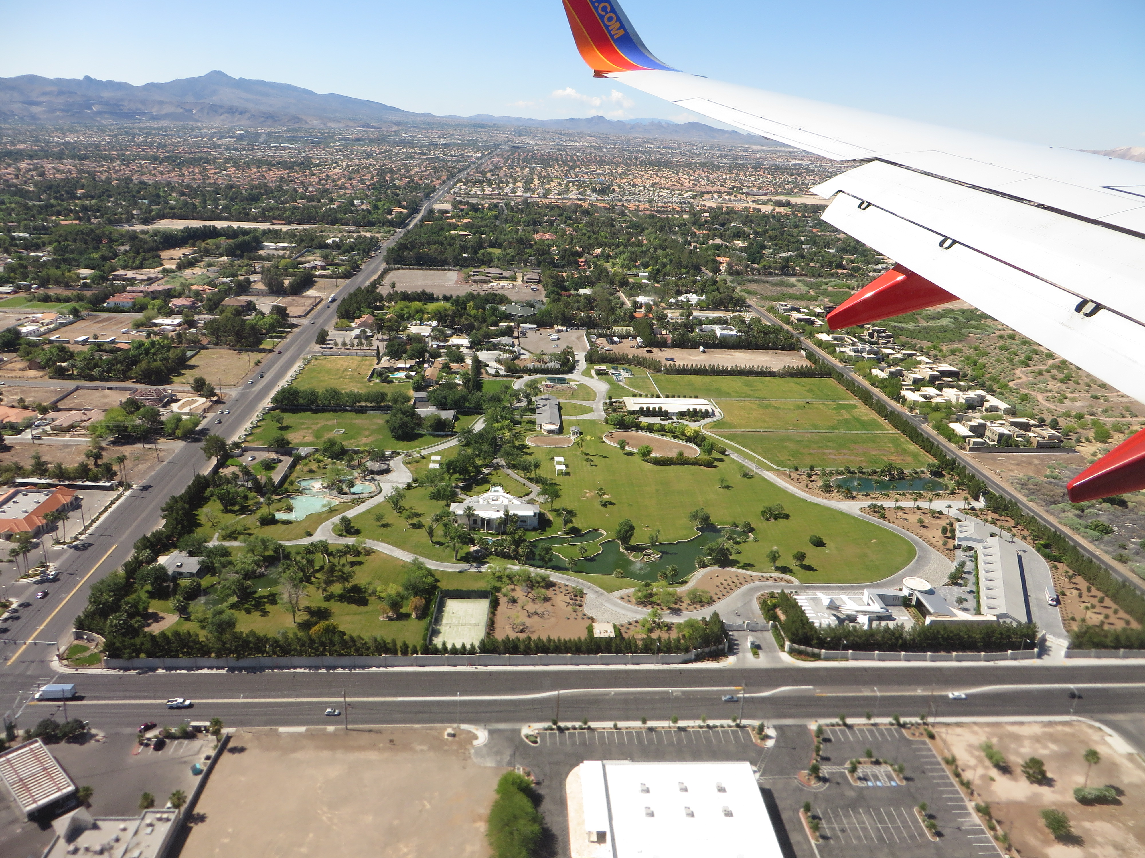 Wayne Newton (born April 3, 1942) is an American singer and entertainer based in Las Vegas, Nevada. He is known by the nicknames The Midnight Idol, Mr. Las Vegas and Mr. Entertainment. His well known songs include 1972's "Daddy, Don't You Walk So Fast" (his biggest hit, peaking at No. 4 on the Billboard chart), "Years" (1980), and his vocal version of "Red Roses for a Blue Lady" (1965). He is best known for his signature song, "Danke Schoen" (1963).